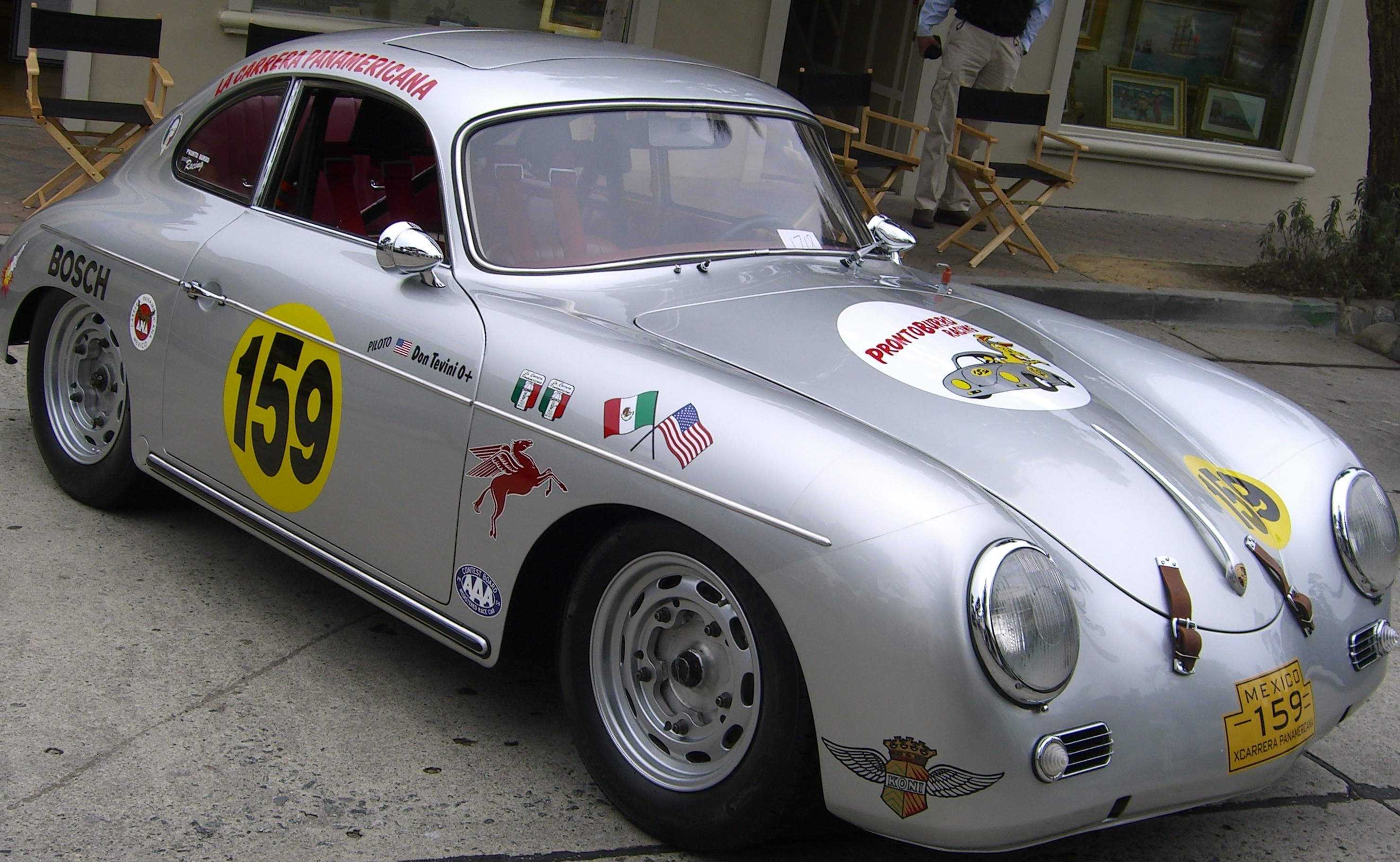 1959 Porsche 356A owned by Don Tevini of Salinas, California. Car prepared for Carrera Panamericana retrospective parades.